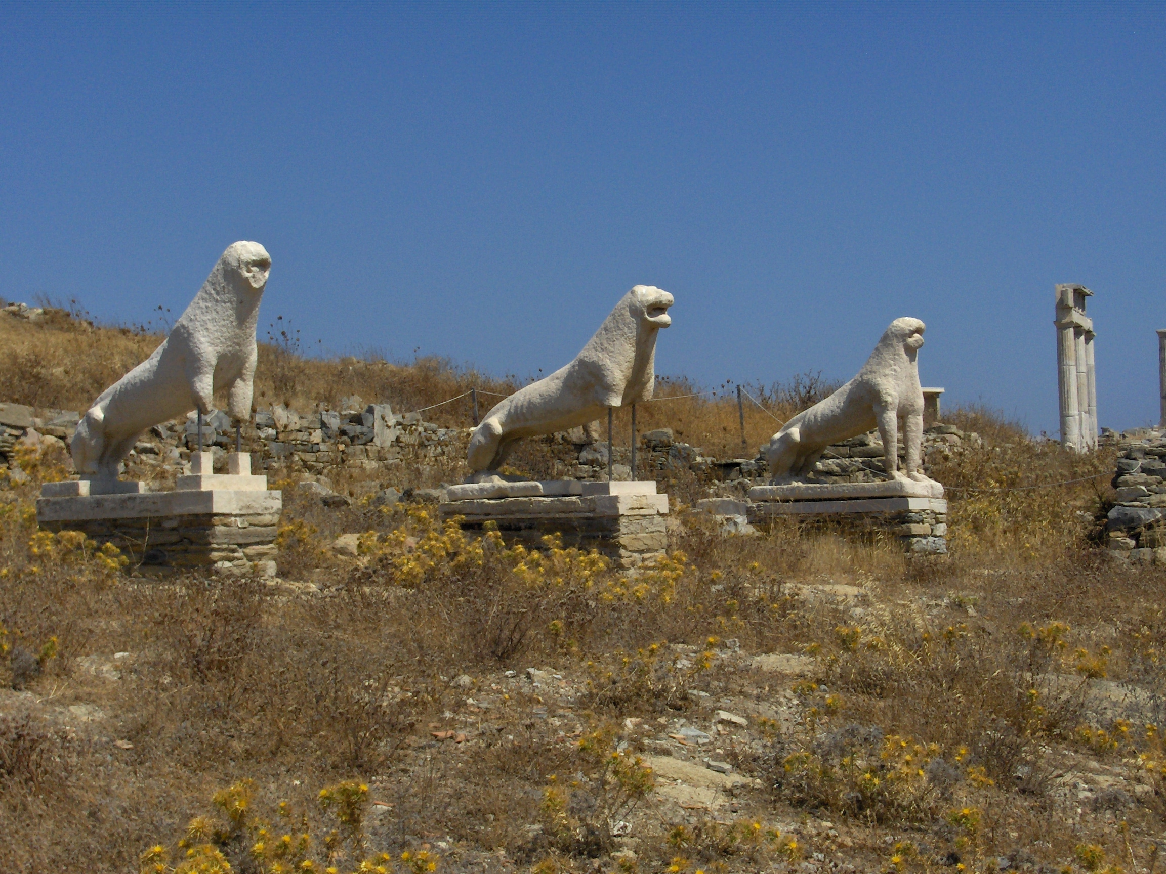 Ruins at the island of Delos.